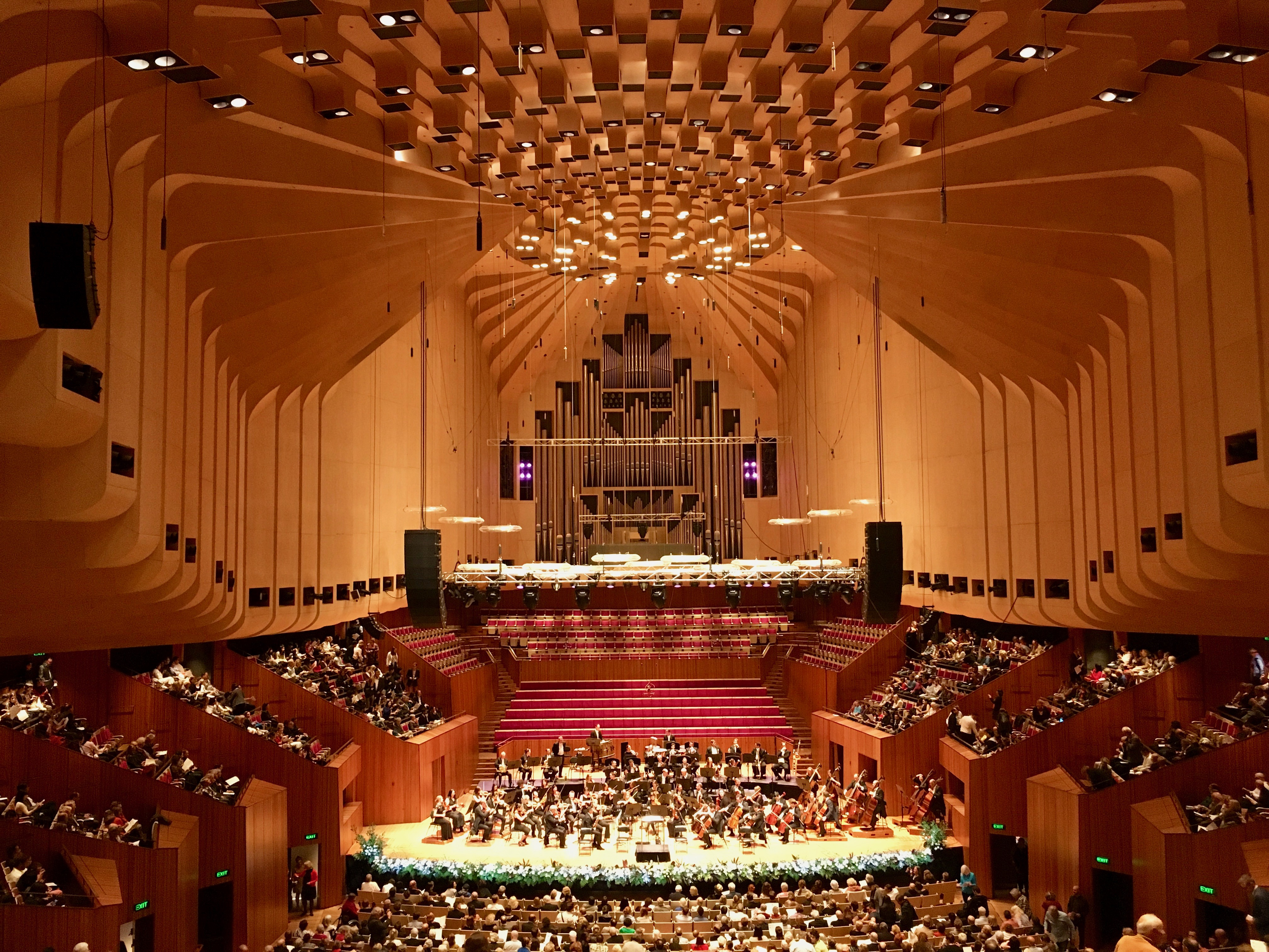 Interior of Sydney Opera House Concert Hall during 11 August, 2017 performance of Verdi's Requiem by Opera Australia.